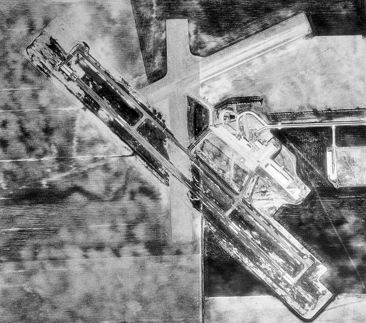 USGS digital orthophoto of Crookston Municipal Airport / Kirkwood Field, in Crookston, Minnesota, United States